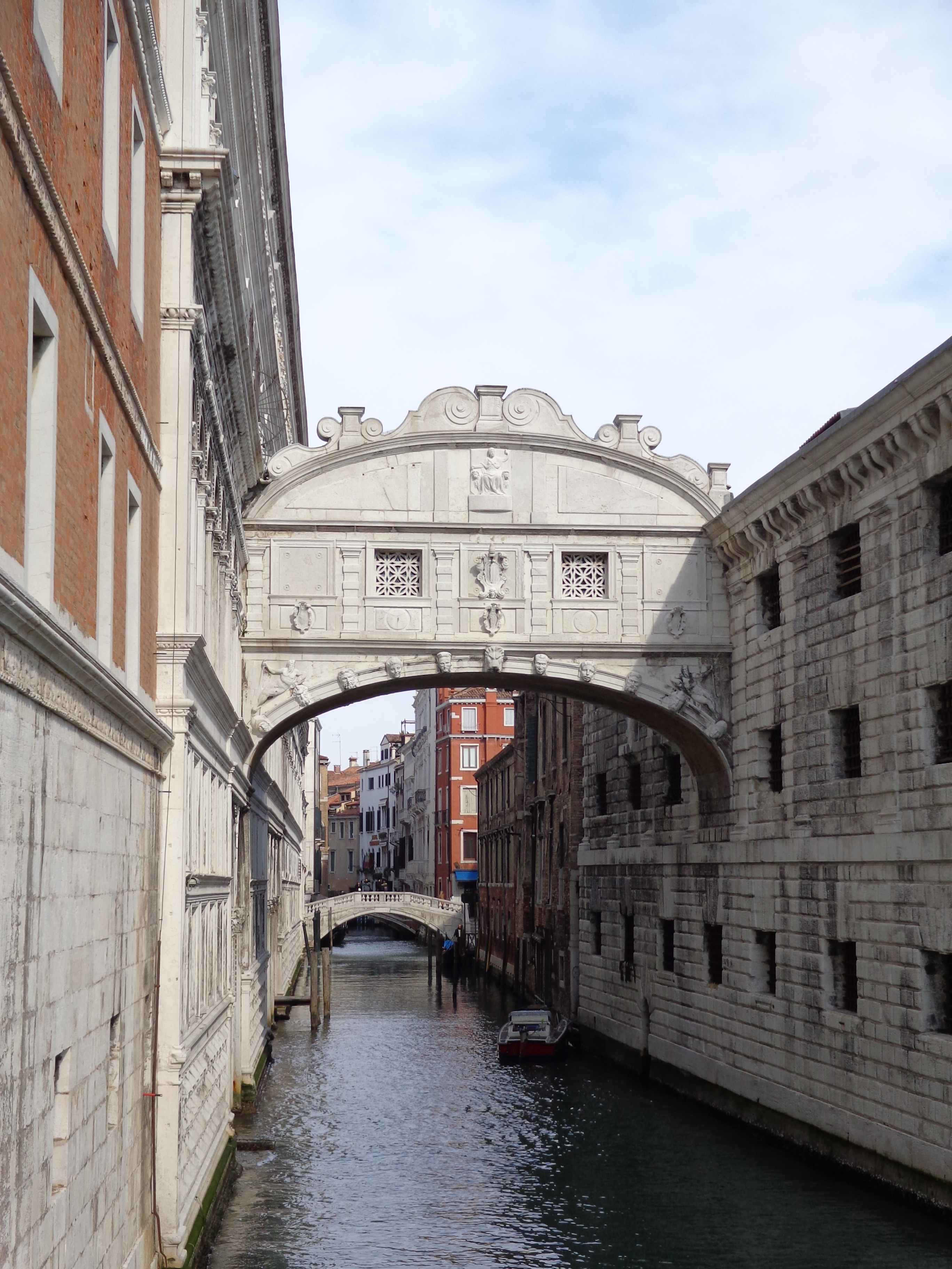 Bridge of Sighs, Venice